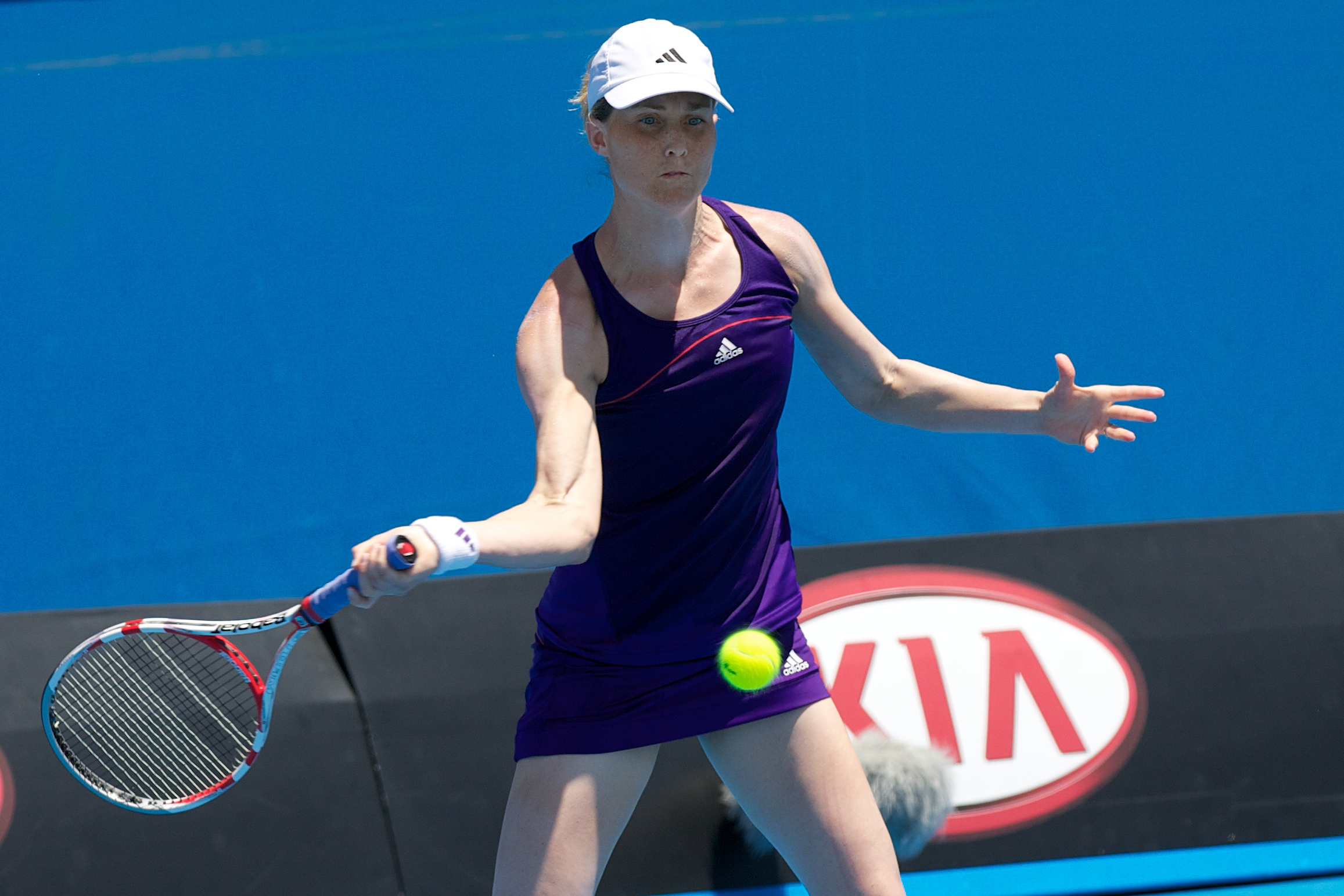 Meghann Shaughnessy at the 2011 Australian Open